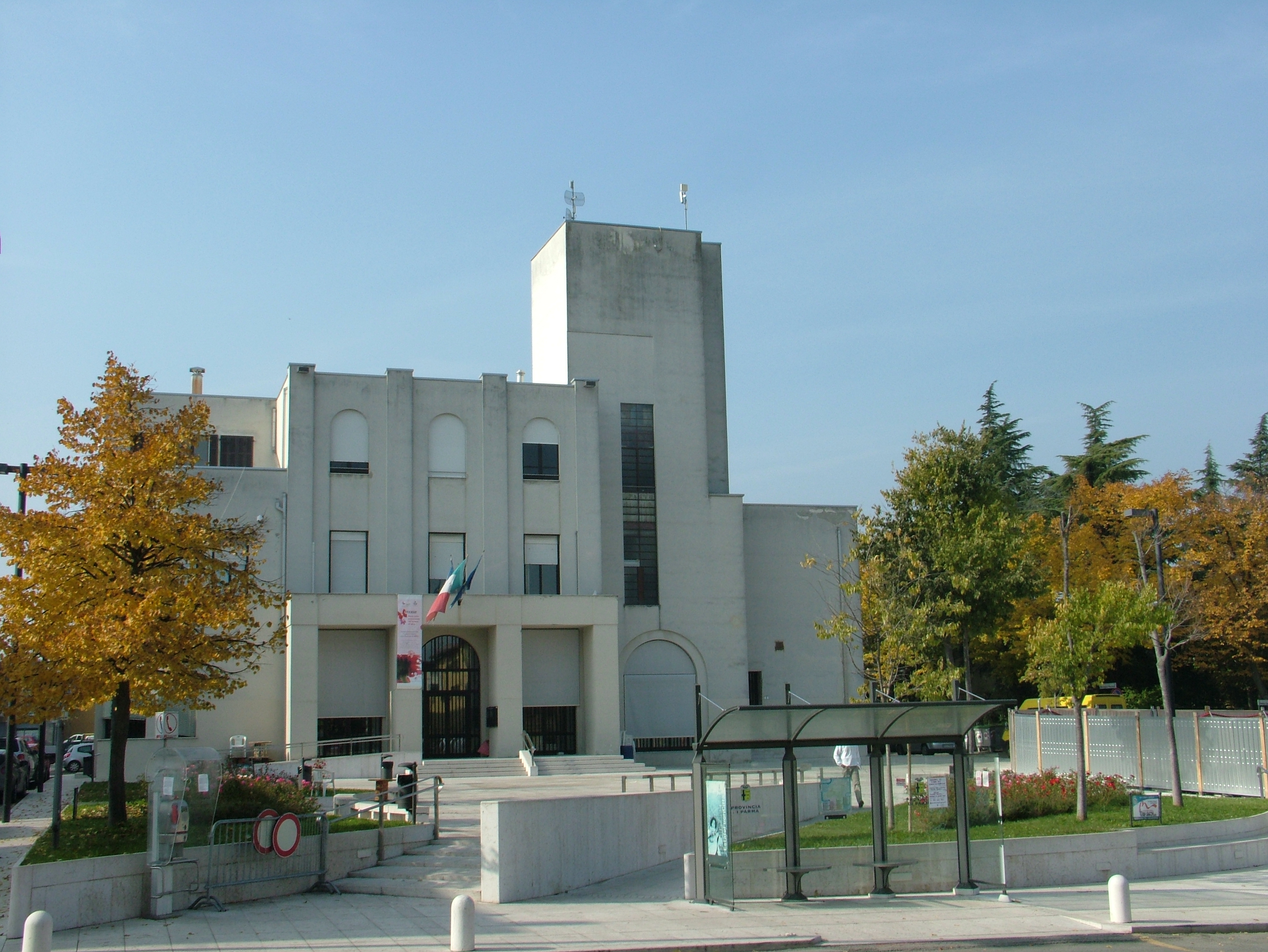 Medesano, province of Parma, Italy, the Town Hall in square Guglielmo Marconi.